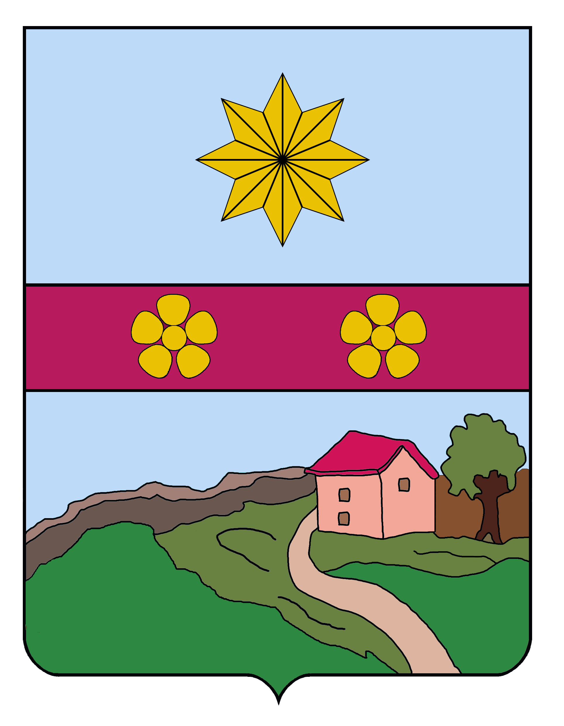 coat of arms of the italian municipality Monesiglio (with this PD-file)